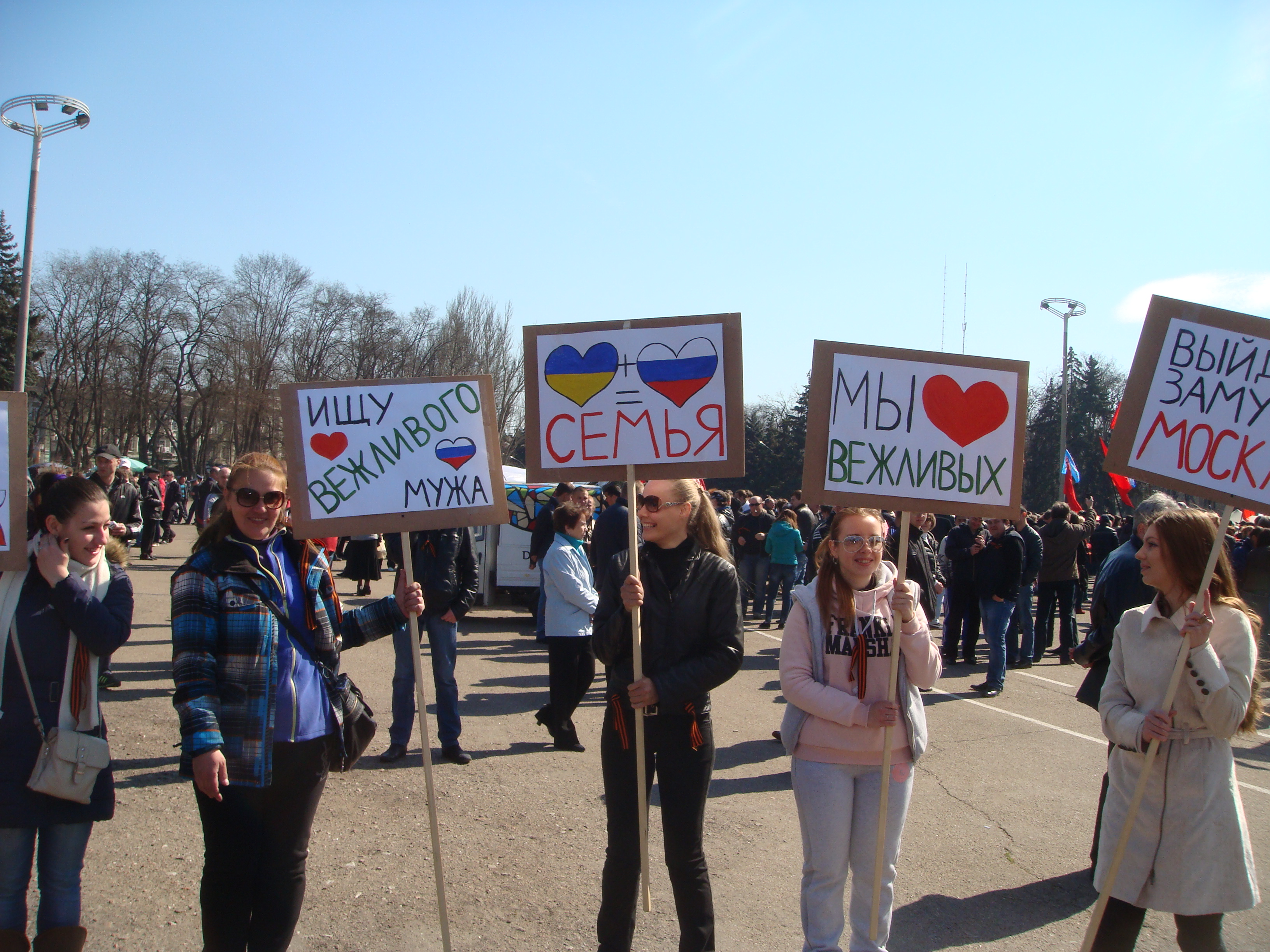 Protesters in Odessa on 2014-03-30 participating in meeting against political repression and for federalization of Ukraine.